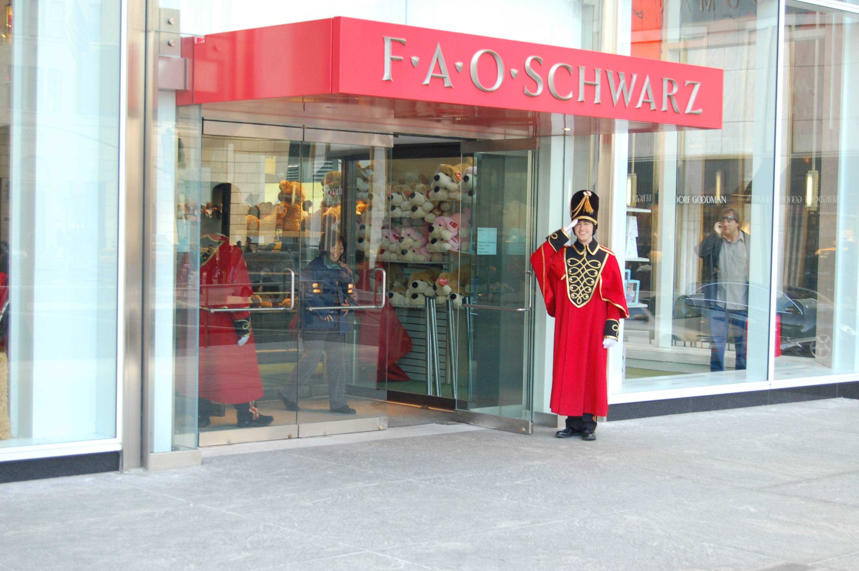 FAO Schwarz on 5th Avenue in New York City